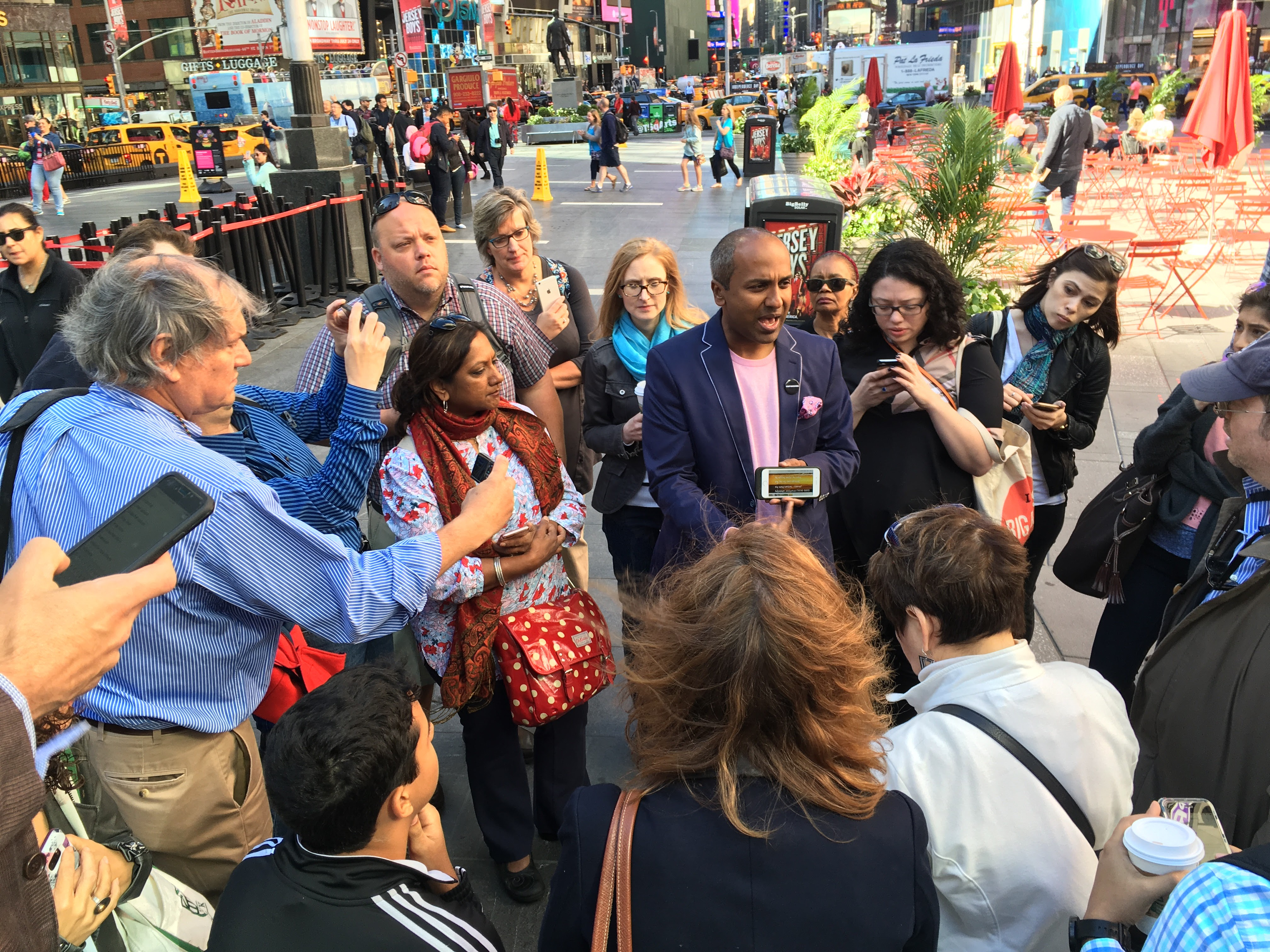 Sree Sreenivasan teaching a social media class in Times Square, NYC during SMWKND 2016